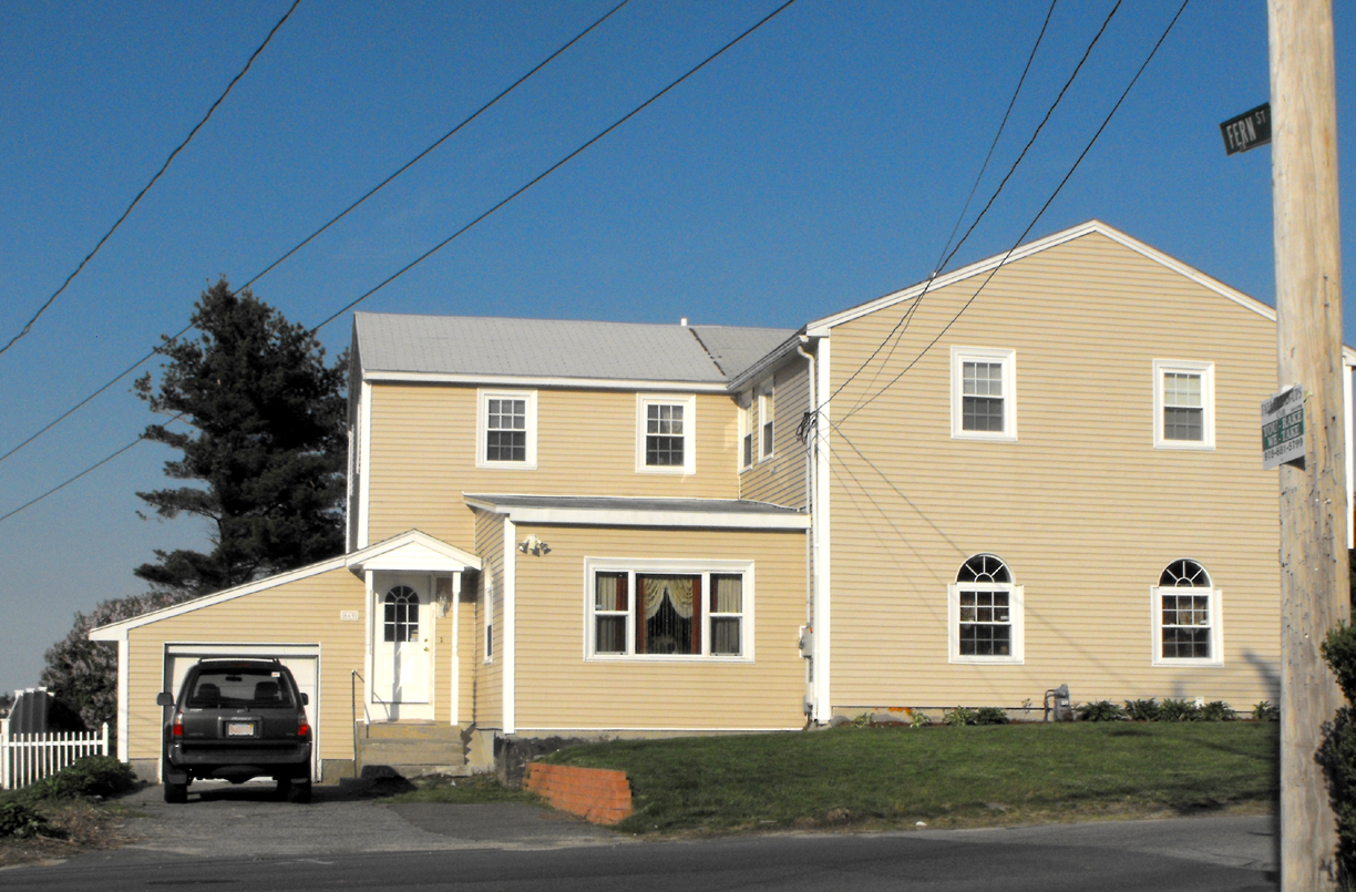 Asie Swan House,. 696 Prospect St, St. Methuen, MA